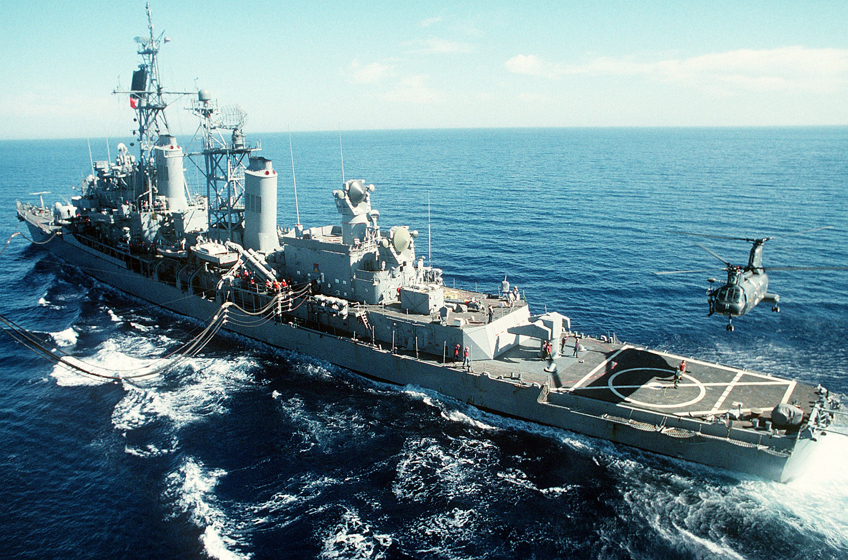 Red Sea – The guided missile destroyer USS WILLIAM V. PRATT (DDG-44) takes on fuel from the Military Sealift Command-operated fleet oiler USNS JOSHUA HUMPHREYS (T-AO-188) as a CH-46D Sea Knight conducts vertical replenishment with the PRATT. The destroyer is conducting Maritime Interdiction Force missions in support of U.N. trade sanctions against Iraq in the aftermath of Operation Desert Storm.